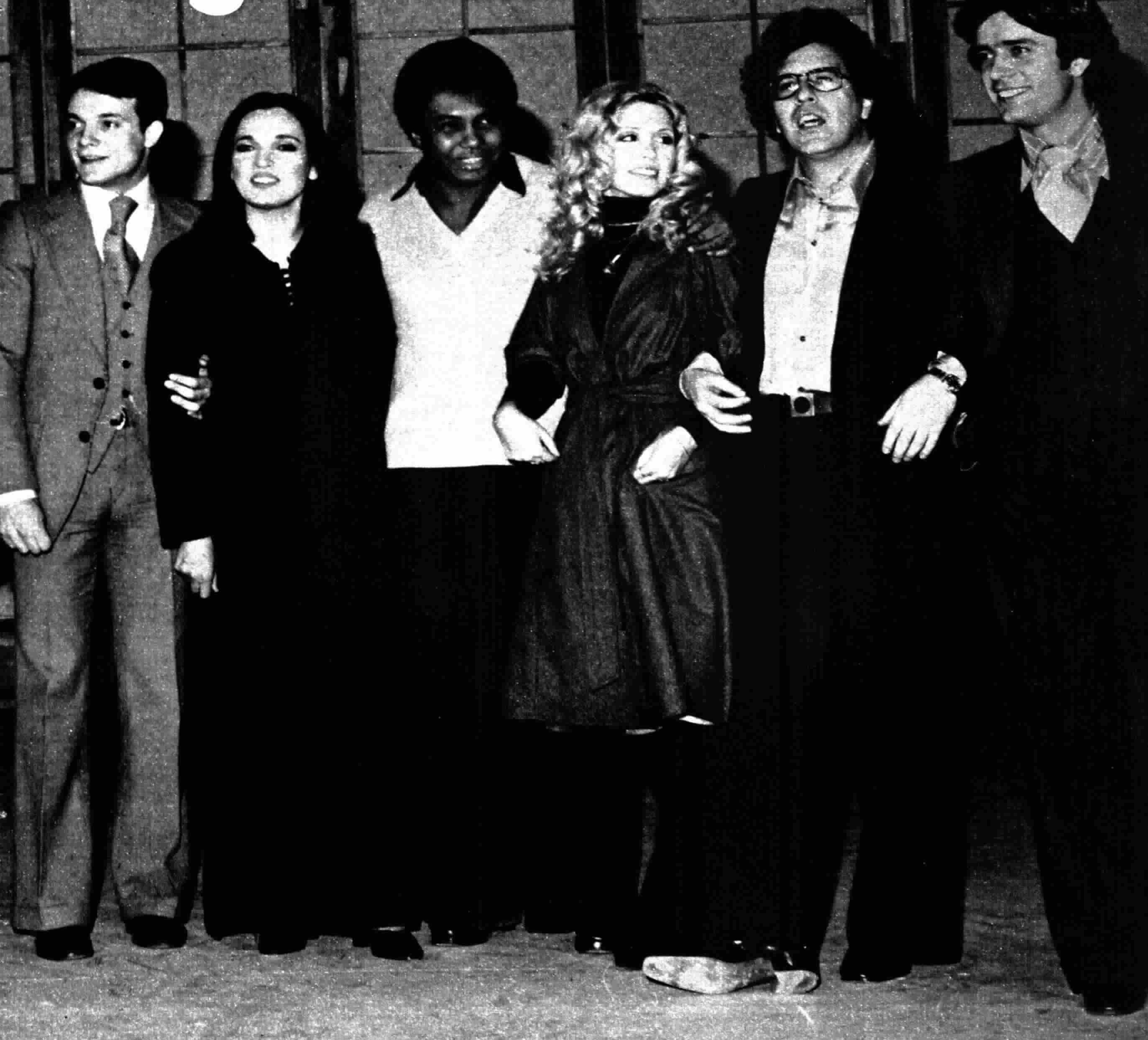 singers at finals of Canzonissima 1974